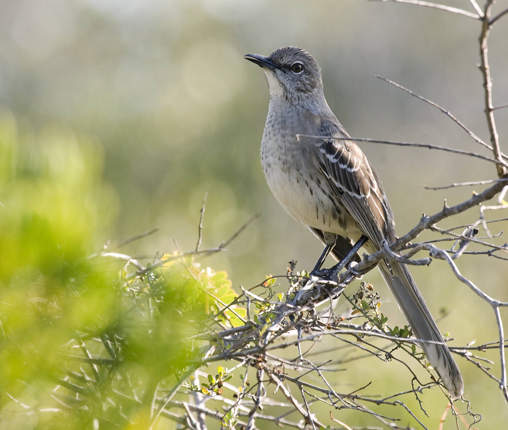 A Bahama Mockingbird in Ciego de Avila Province, Cuba.